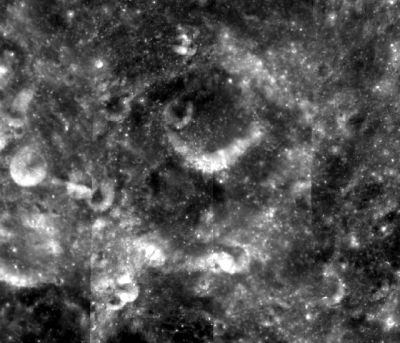 Clementine image